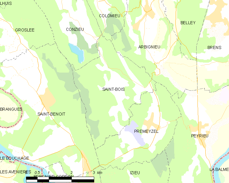 Map of French commune: Saint-Bois Map commune FR insee code 01340.png